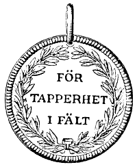 För tapperhet i fält ("For Valour in the Field"), a Swedish military medal.